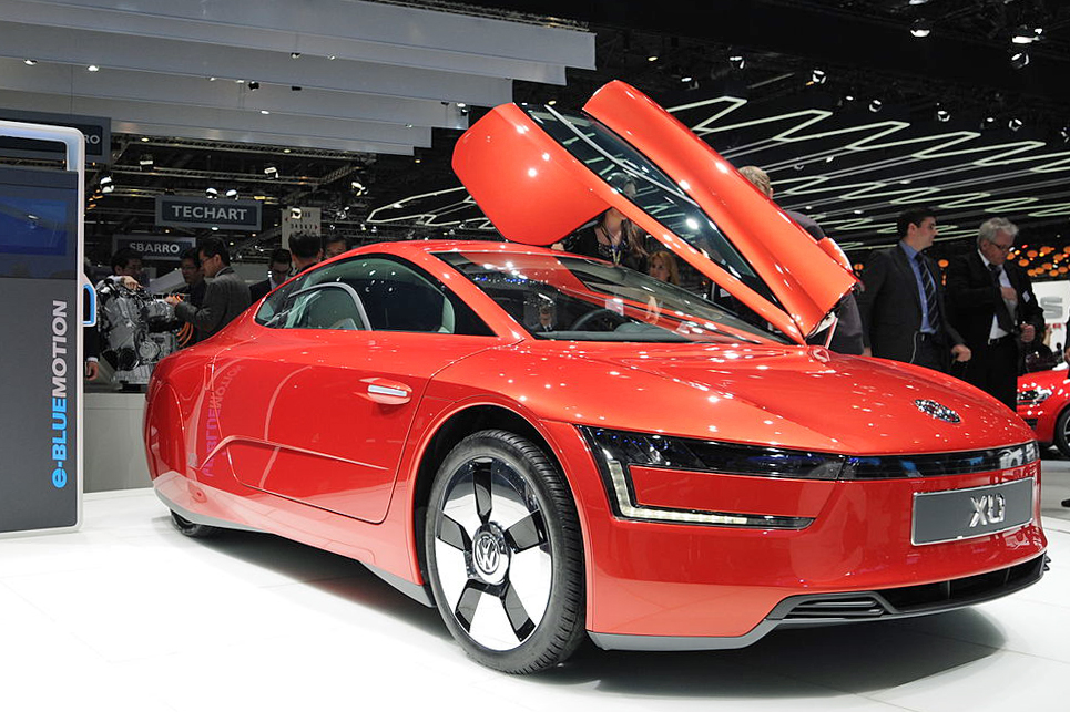 Production version of the Volkswagen XL1 exhibited at the Geneva Motor Show 2013 (photos taken on the first press day)